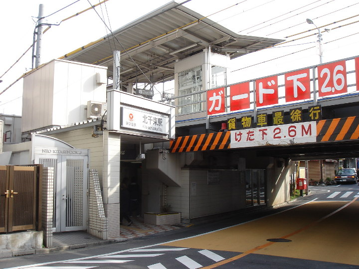 Kita-Senzoku Station, Tokyu Oimachi Line